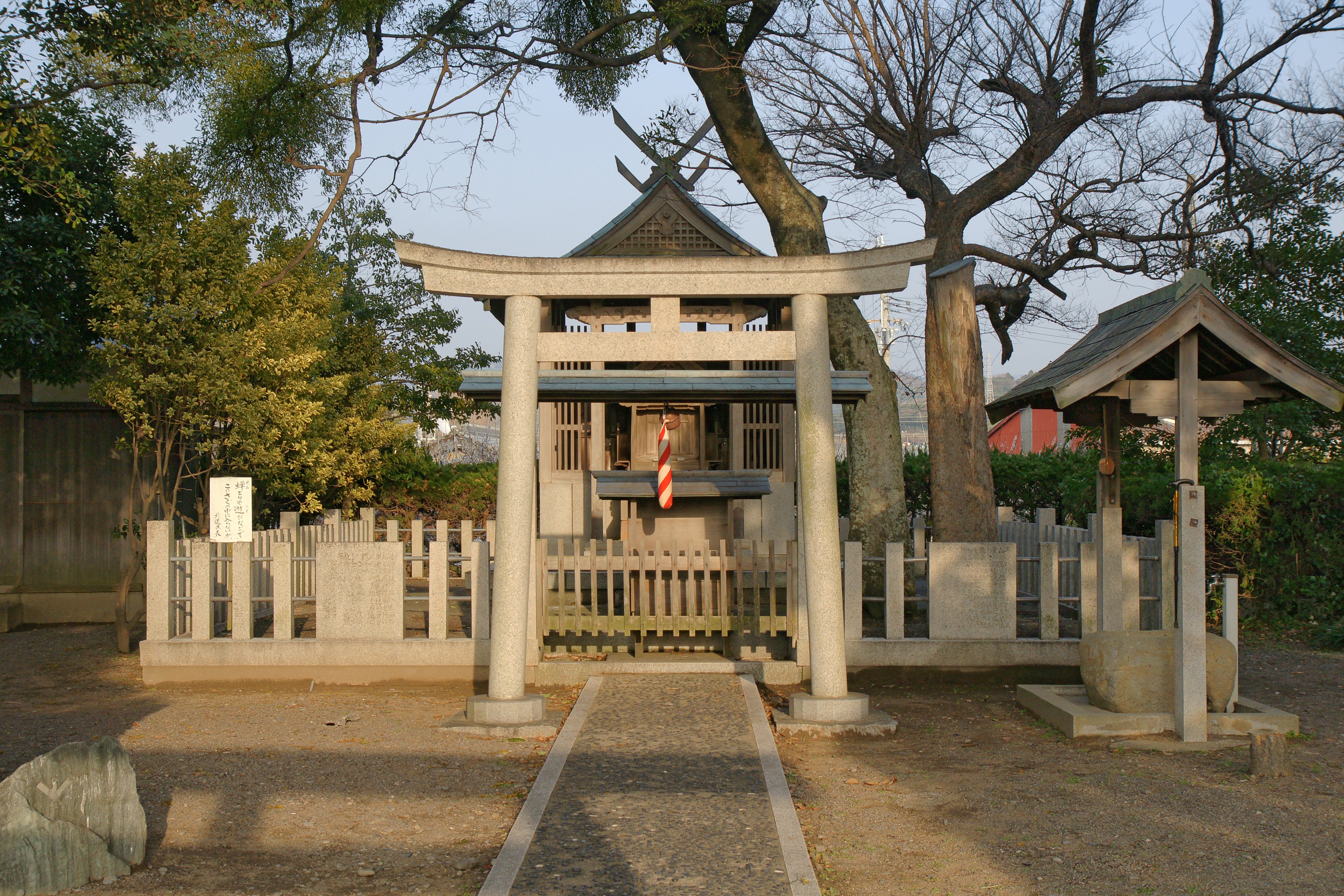 Minabe Oji, Minabe, Wakayama prefecture, Japan